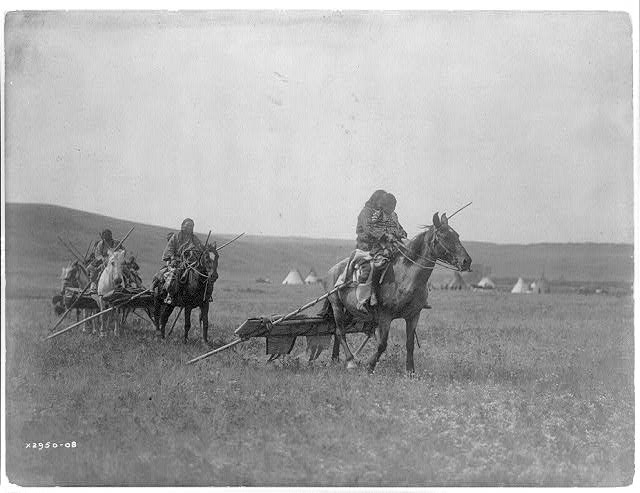 TITLE: Moving camp—Atsina. SUMMARY Several Atsina on horses with travois behind them, tipis in background. CALL NUMBER: LOT 12322-A [item] [P&P] Check for an online group record (may link to related items) REPRODUCTION NUMBER: LC-USZ62-40310 (b&w film copy neg.) RIGHTS INFORMATION: No known restrictions on publication. No renewal in Copyright office. MEDIUM: 1 photographic print. CREATED/PUBLISHED: c1908 November 19. CREATOR Curtis, Edward S., 1868-1952, photographer. NOTES H1181622 U.S. Copyright Office. Curtis no. 2950-08. Forms part of: Edward S. Curtis Collection (Library of Congress). Published in: The North American Indian / Edward S. Curtis. [Seattle, Wash.] : Edward S. Curtis, 1907-30, v. 5, p. 136. FORMAT: Photographic prints 1900-1910. REPOSITORY: Library of Congress Prints and Photographs Division Washington, D.C. 20540 USA SUBJECTS Indians of North America--Transportation--Montana--1900-1910. Atsina Indians--Transportation--1900-1910. Horses--Montana--1900-1910. Household moving--1900-1910. Tipis--Montana--1900-1910. Travois--Montana--1900-1910.